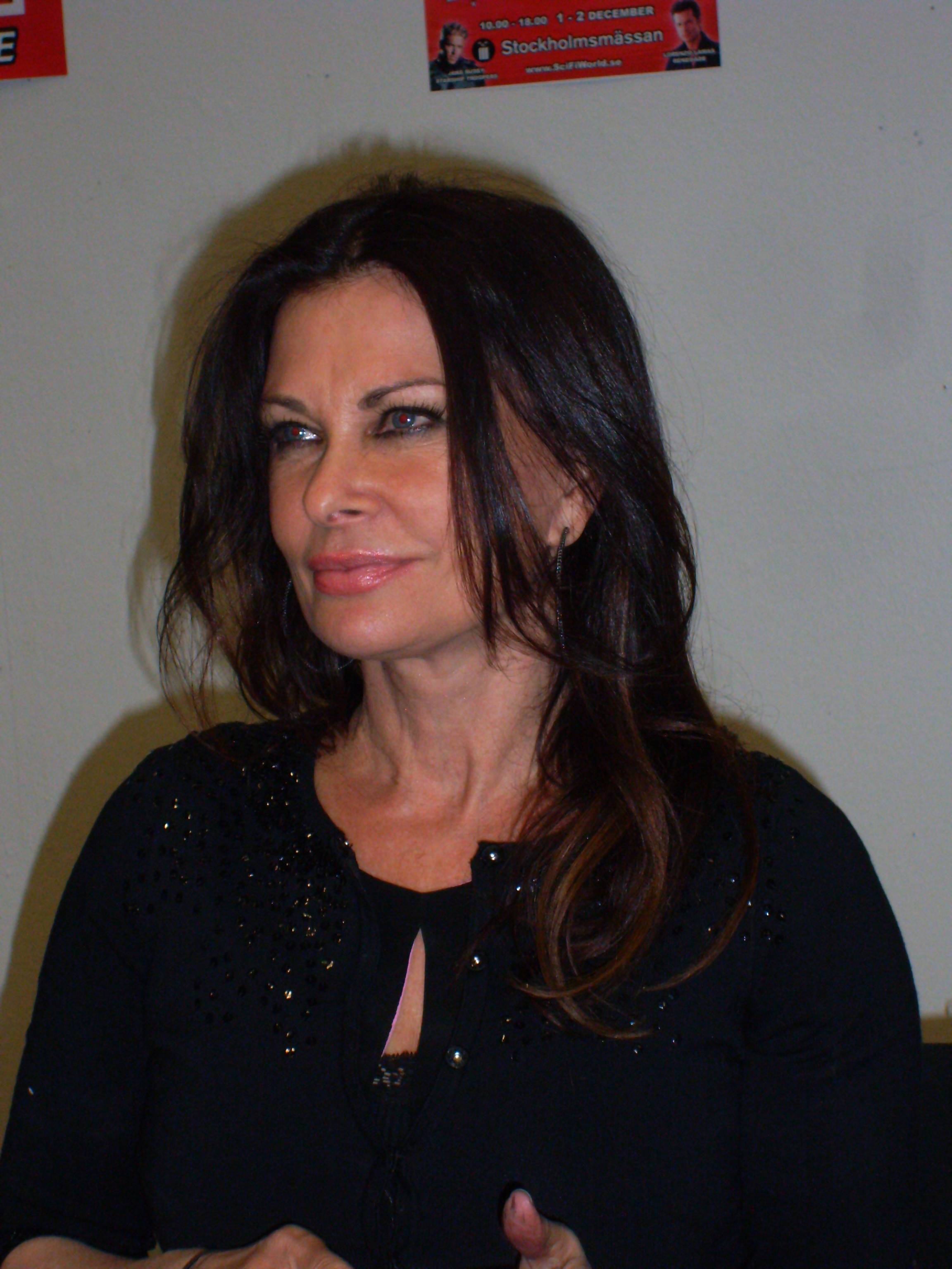 Jane Badler, American actress at Stockholm International Fairs 2012